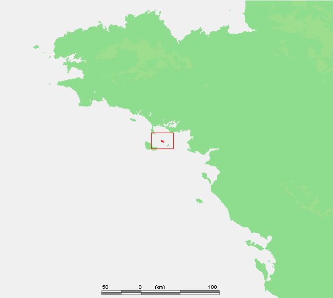 FR Houat.PNG